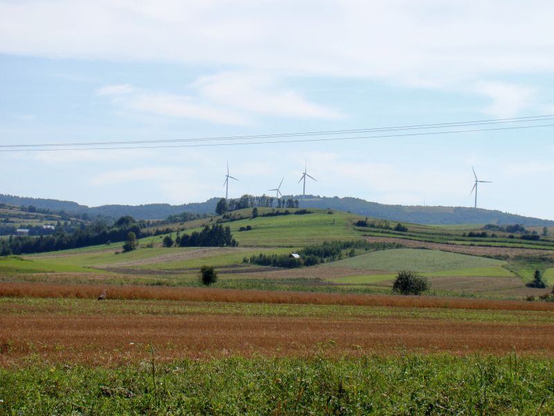 place where there was an Vandalic burials